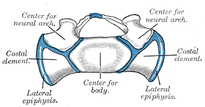 Base of young sacrum.